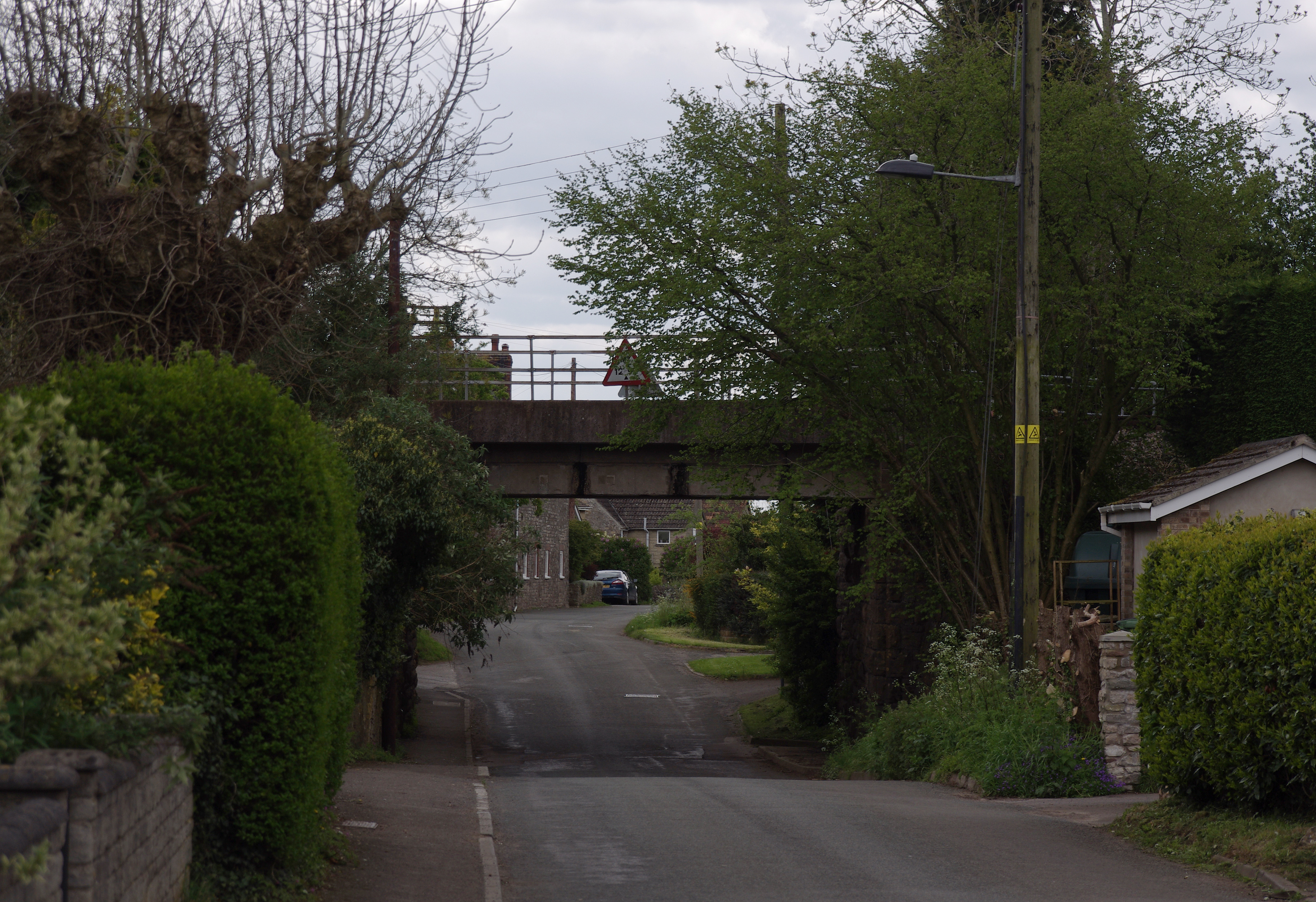 Thornbury Branch Line bridge over the road in Tytherington, next to where the station used to be.